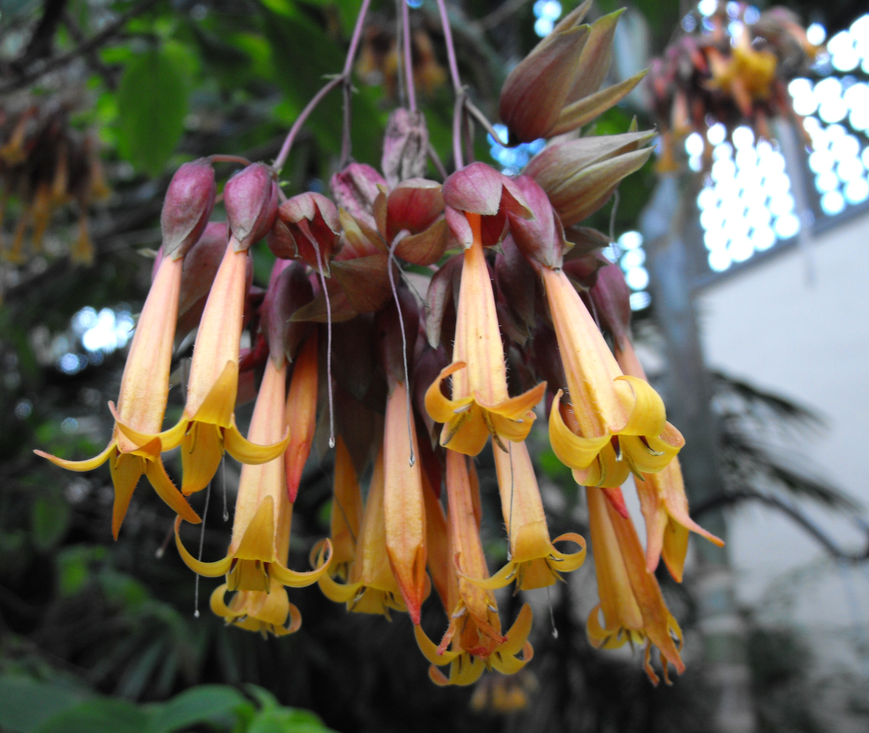 Csapodya splendens 'Agusten' in the Botanical Building in Balboa Park, San Diego, California, USA. Identified by sign.